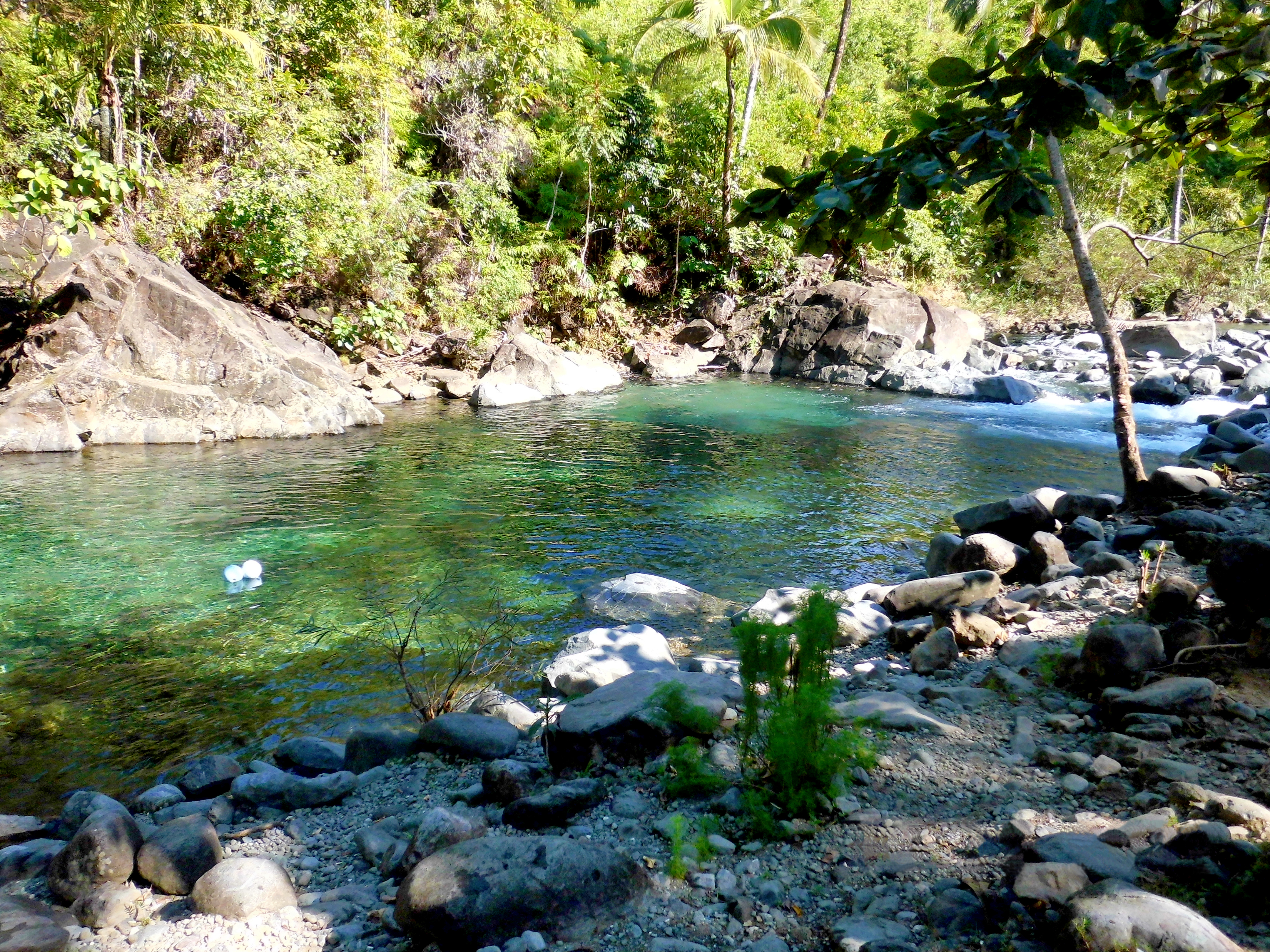 Jungle bath Malibu (Hubason), streamup